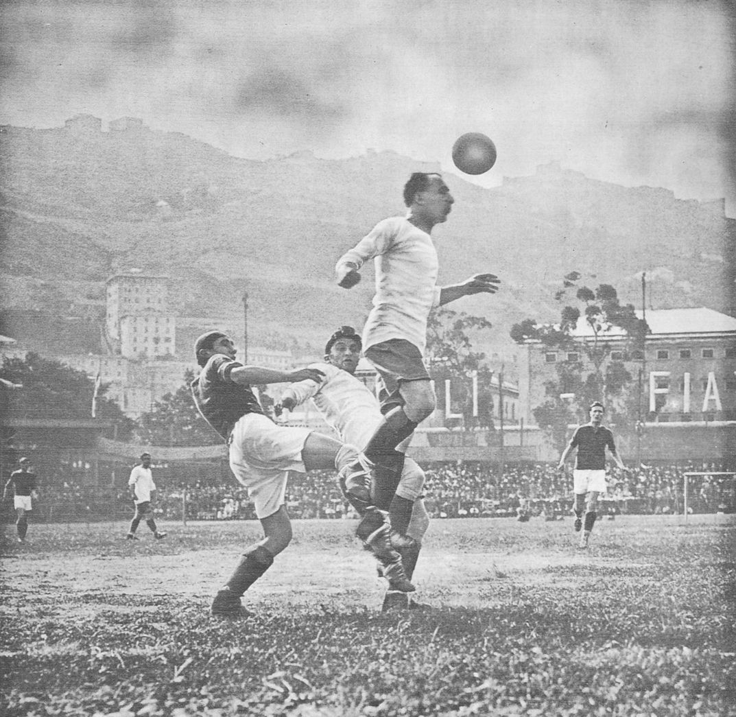 Genoa (Italy), Via del Piano's Ground, June 15, 1924. Genoa C.F.C. — Bologna F.C. 1-0, Italian Championship 1923–24 Prima Divisione, Northern League Finals, 1st leg. From left to right, in the foreground: Bologna's striker Angelo Schiavio and Genoa's midfielder Luigi Burlando observe the header of Genoa's left-back Renzo De Vecchi; in the background: Bologna's midfielder Pietro Genovesi, Genoa's forward Aristodemo Santamaria (I) and Bologna's midfielder Gastone Baldi.